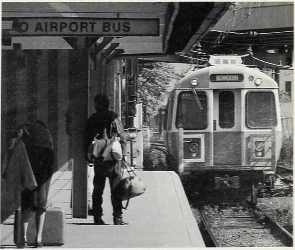 An inbound Blue Line train arrives at Airport station in 1985